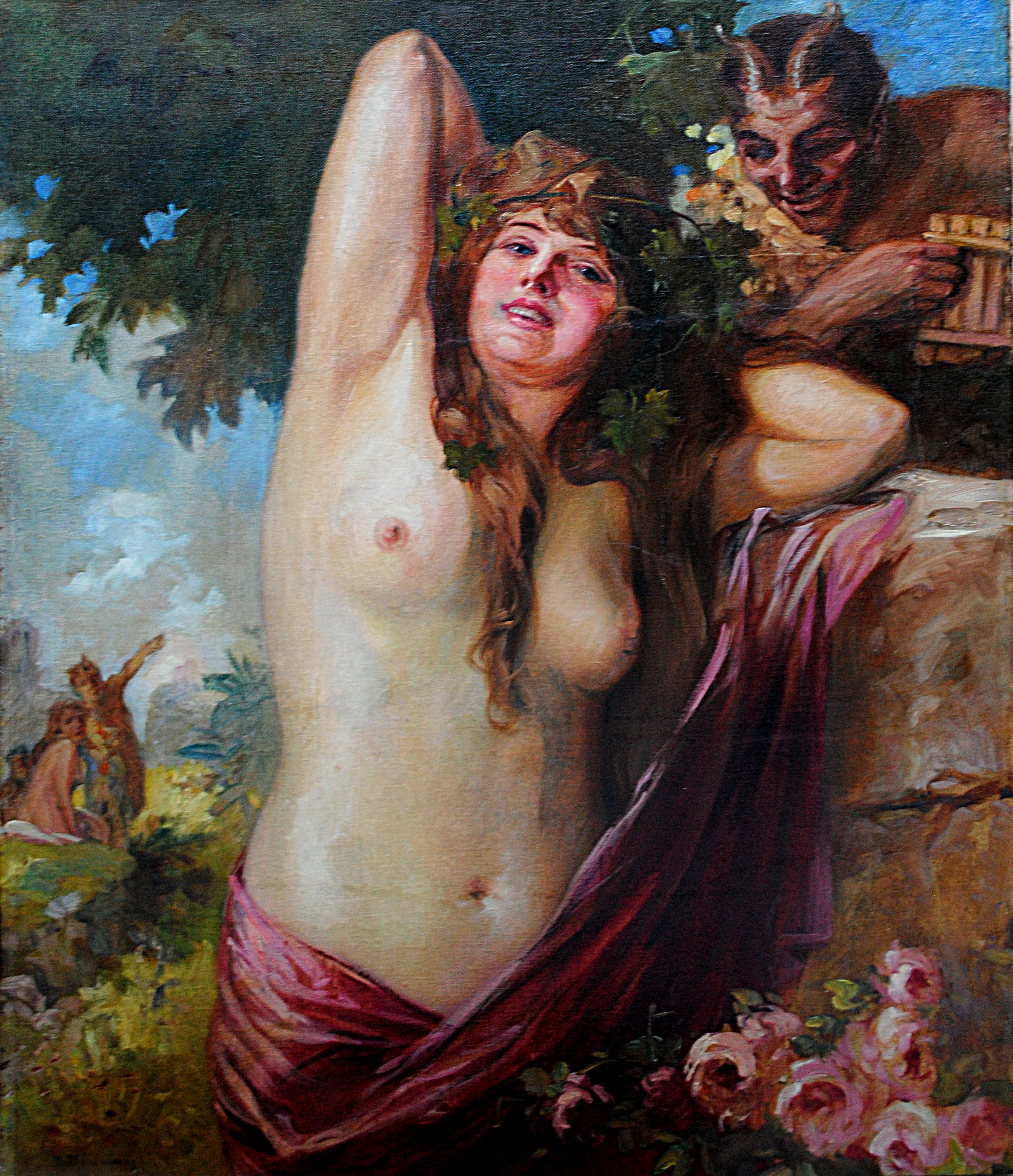 Biskinis Dimitrios, Oil on canvas, 97 x 80 cm, Private Collection